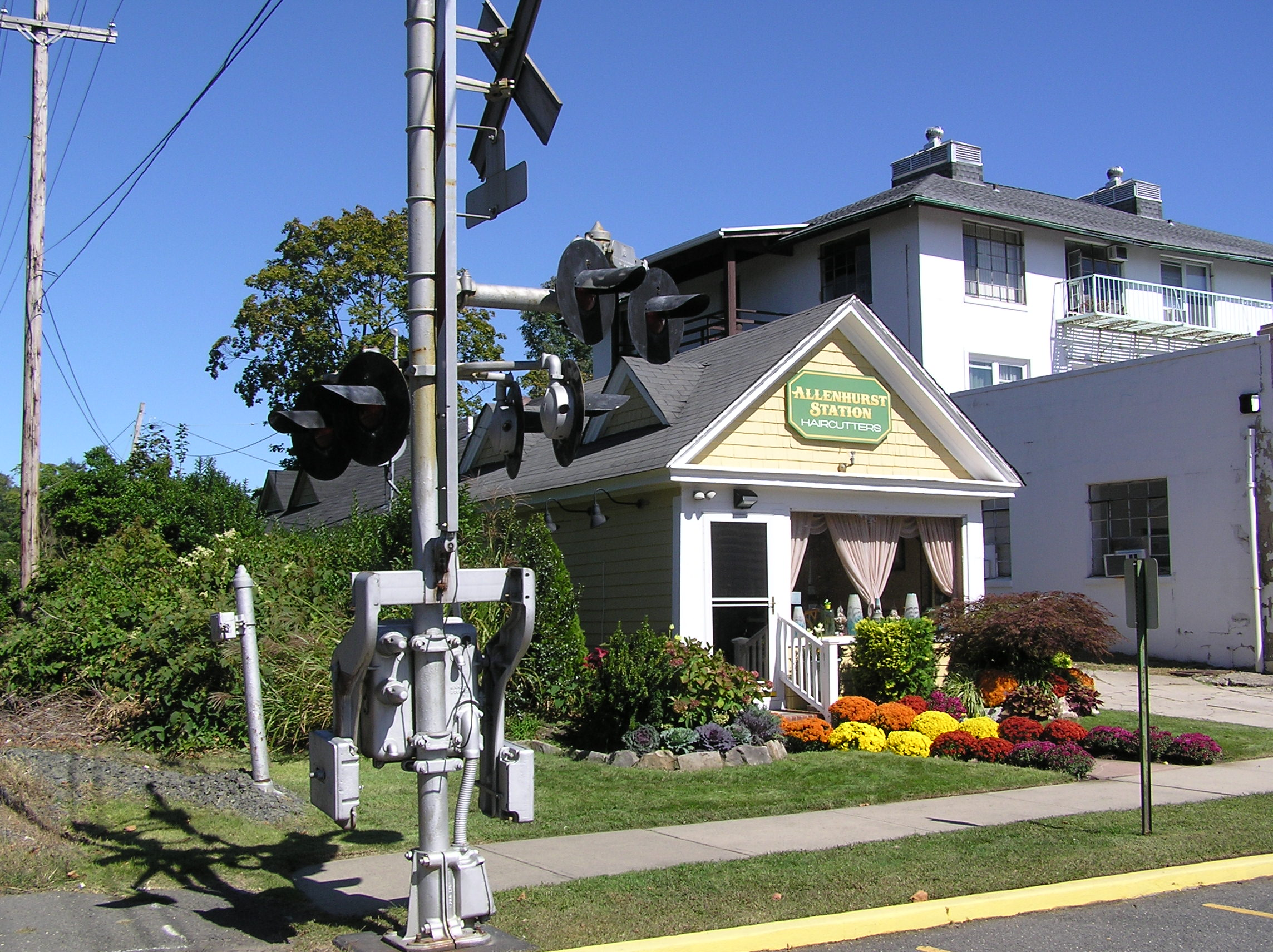 Allenhurst Railroad Station The Allenhurst Railroad Station located on the north side of Spier Avenue at the Railroad in Allenhurst, Monmouth County, New Jersey. The railroad station is currently a hair salon. A larger, more modern train station is located across Spier Avenue.